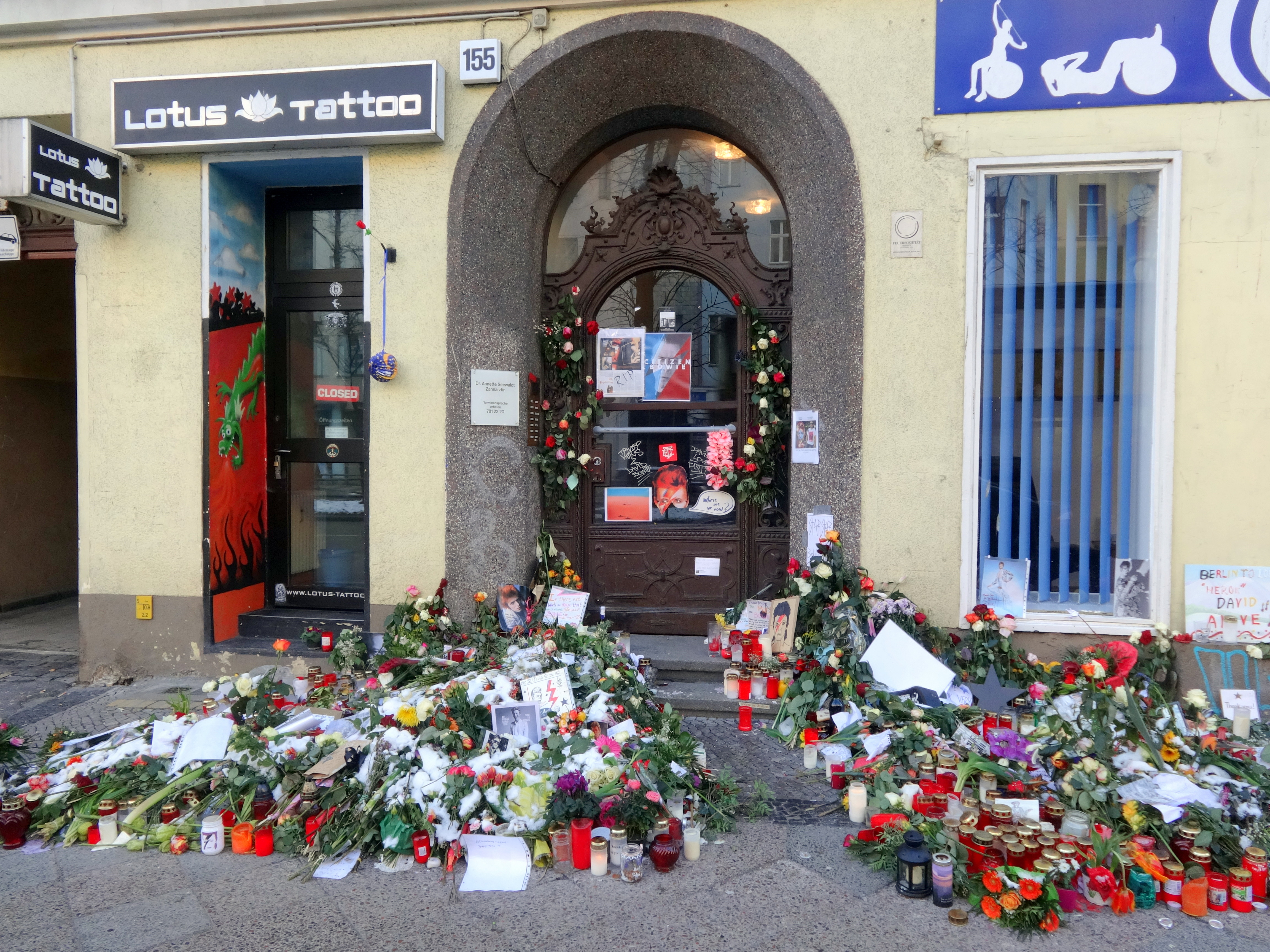 Hauptstraße 155m Berlin-Schöneberg, Former flat of David Bowie some days after his death.